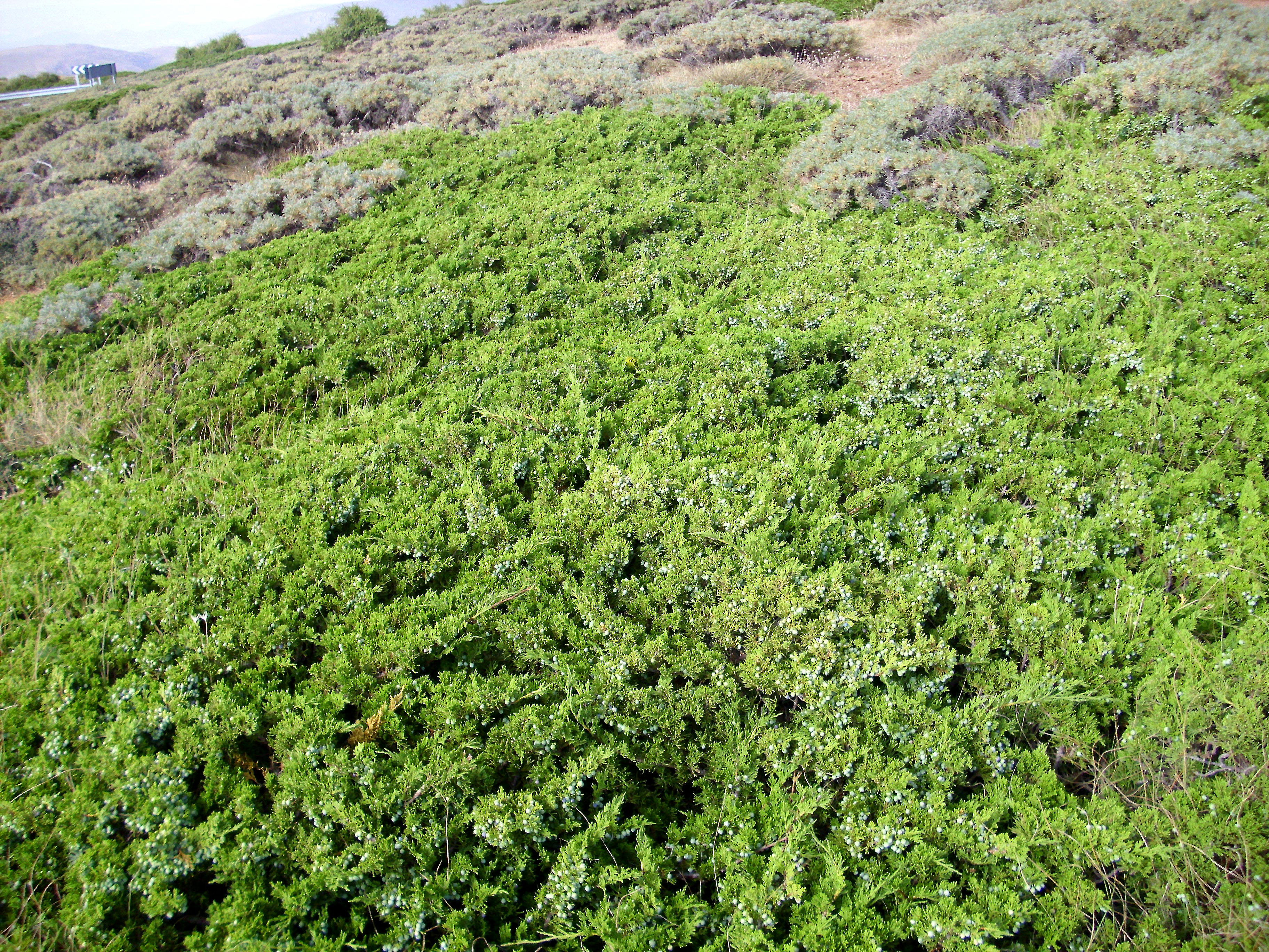 Juniperus sabina creeping variety, habit, Sierra Nevada, Spain